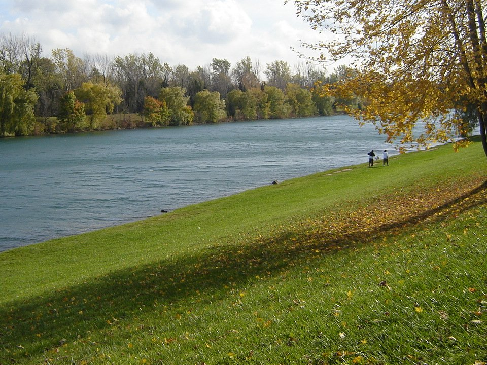 Welland Recreational Waterway, northern reach, Merritt Island with Merritt Trail visible on other side of the channel.